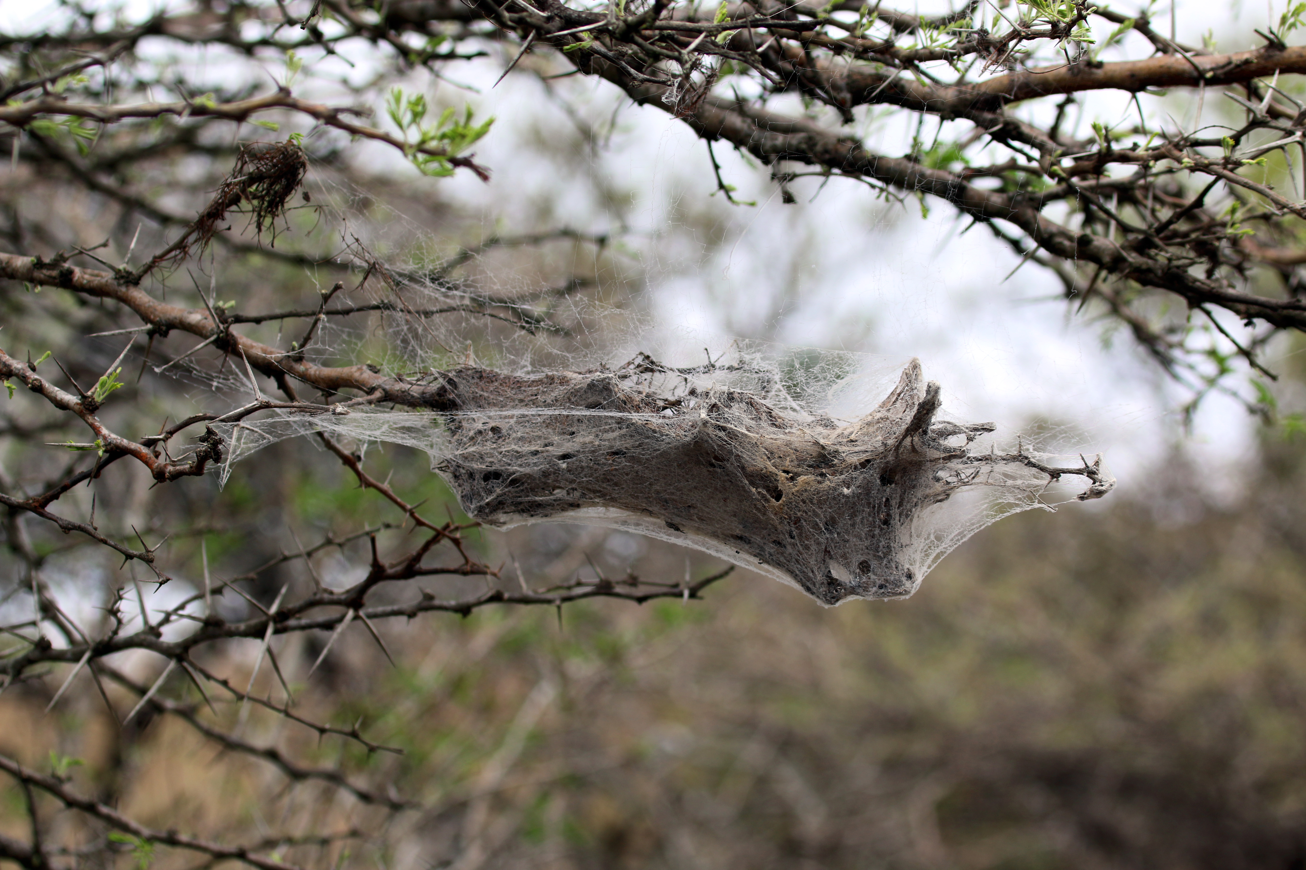 African social spider (Stegodyphus dumicola) nest at andBeyond Phinda Private Game Reserve in KwaZulu-Natal, South Africa